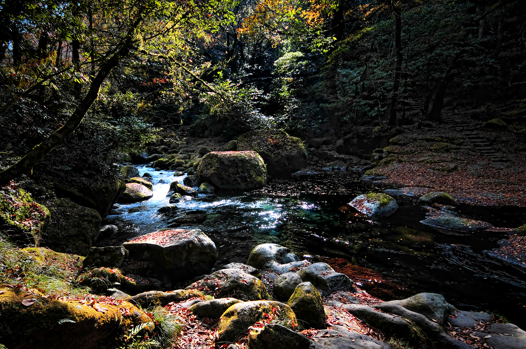 Fresh water flows into a ravine surrounded by woodlands. Waters spill from the top of Mt. Asogairin-zan. Kikuchi Valley was named after the Kikuchi baronial family, which was prosperous from the late 12th century to the late 14th century, and developed as a castle town with farming and forestry as the main industries. The cool water originating in the subsoil water from Mt. Asogairin-zan has been designated as one of 100 best waters in Japan. Slideshow on Japan pp: 'Topaz Adjust' plug-in, blending with "Soft light" and saturation up 15%